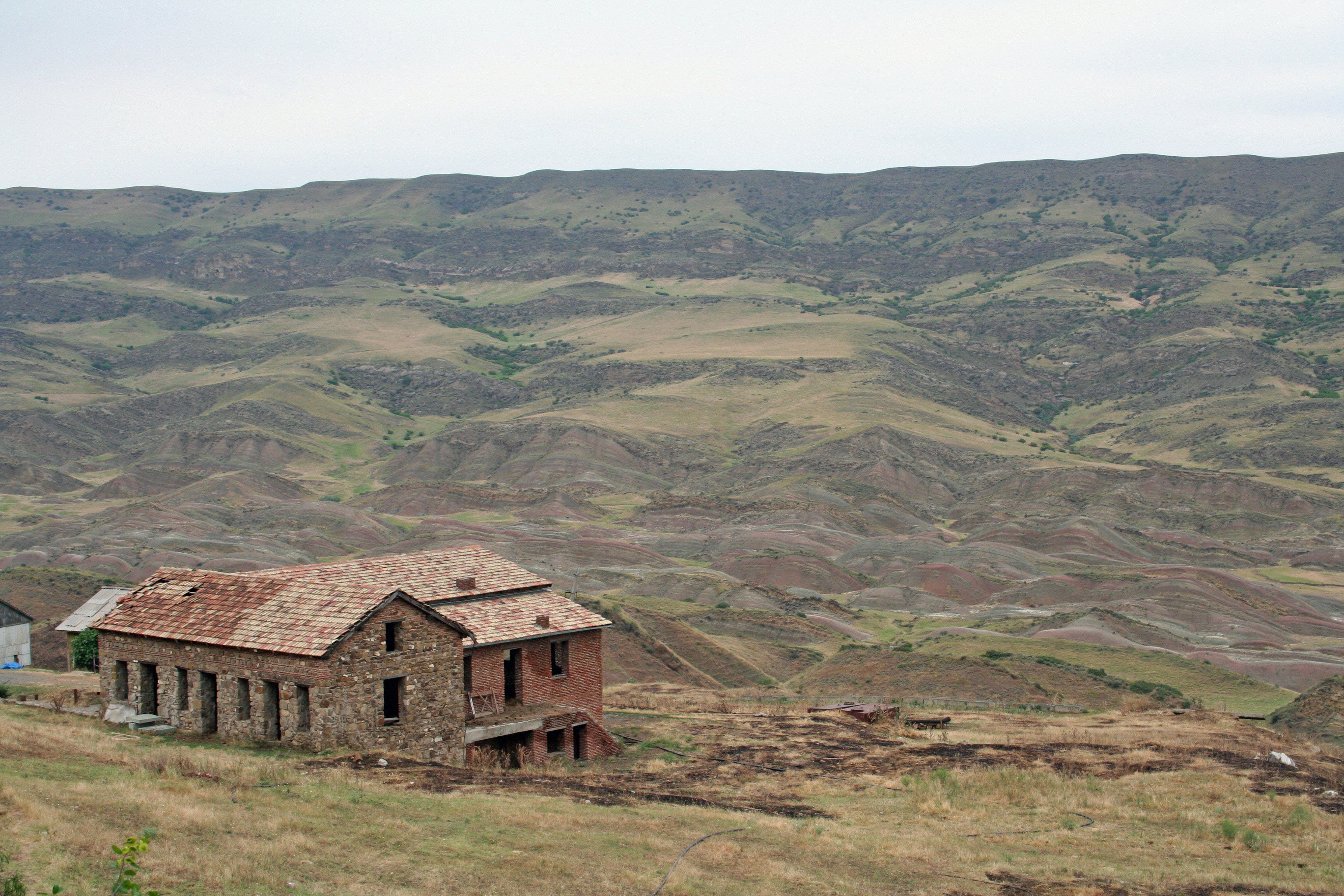 Sagarejo district